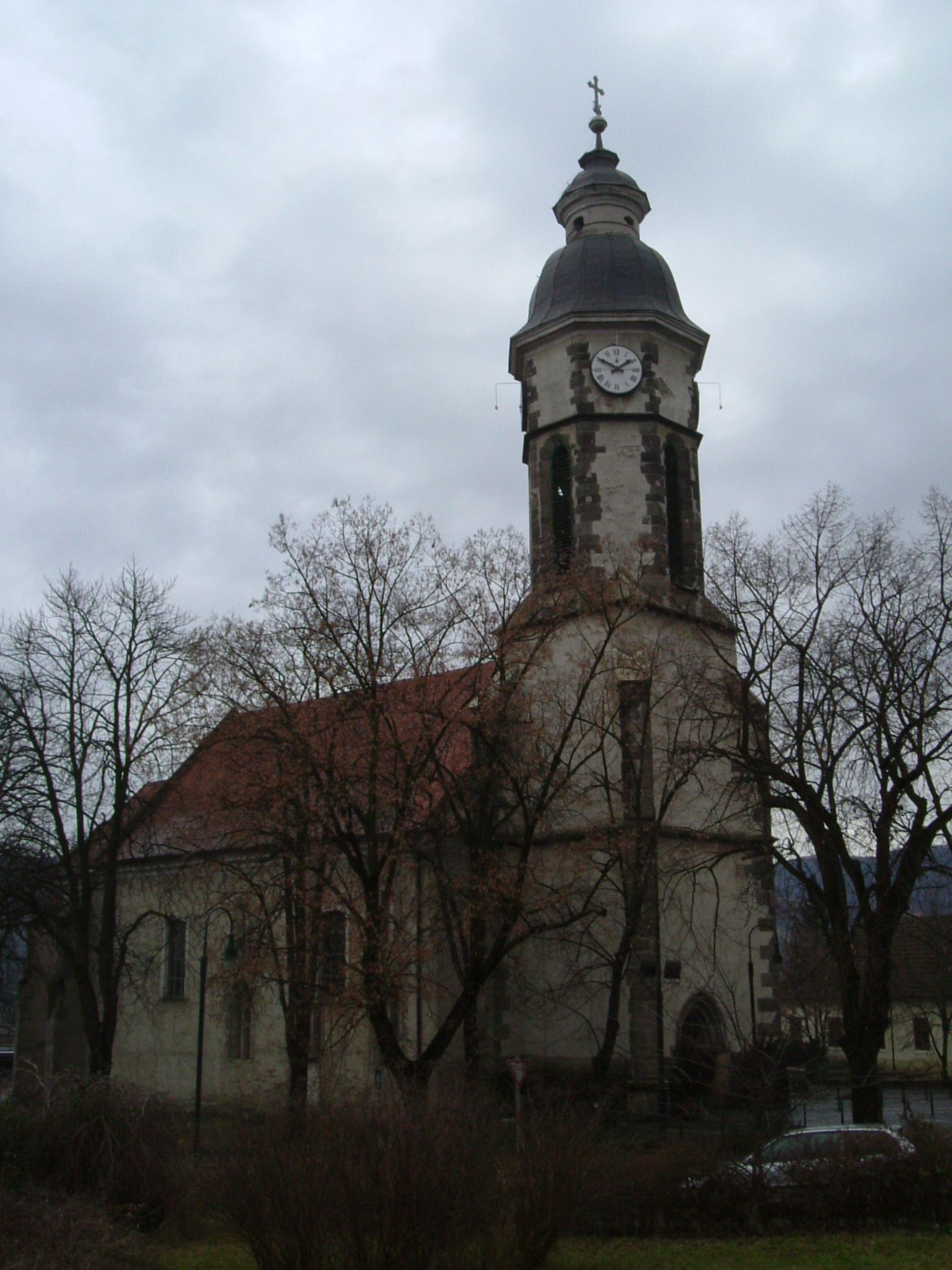 Nagymaros, Hungary, gothic church